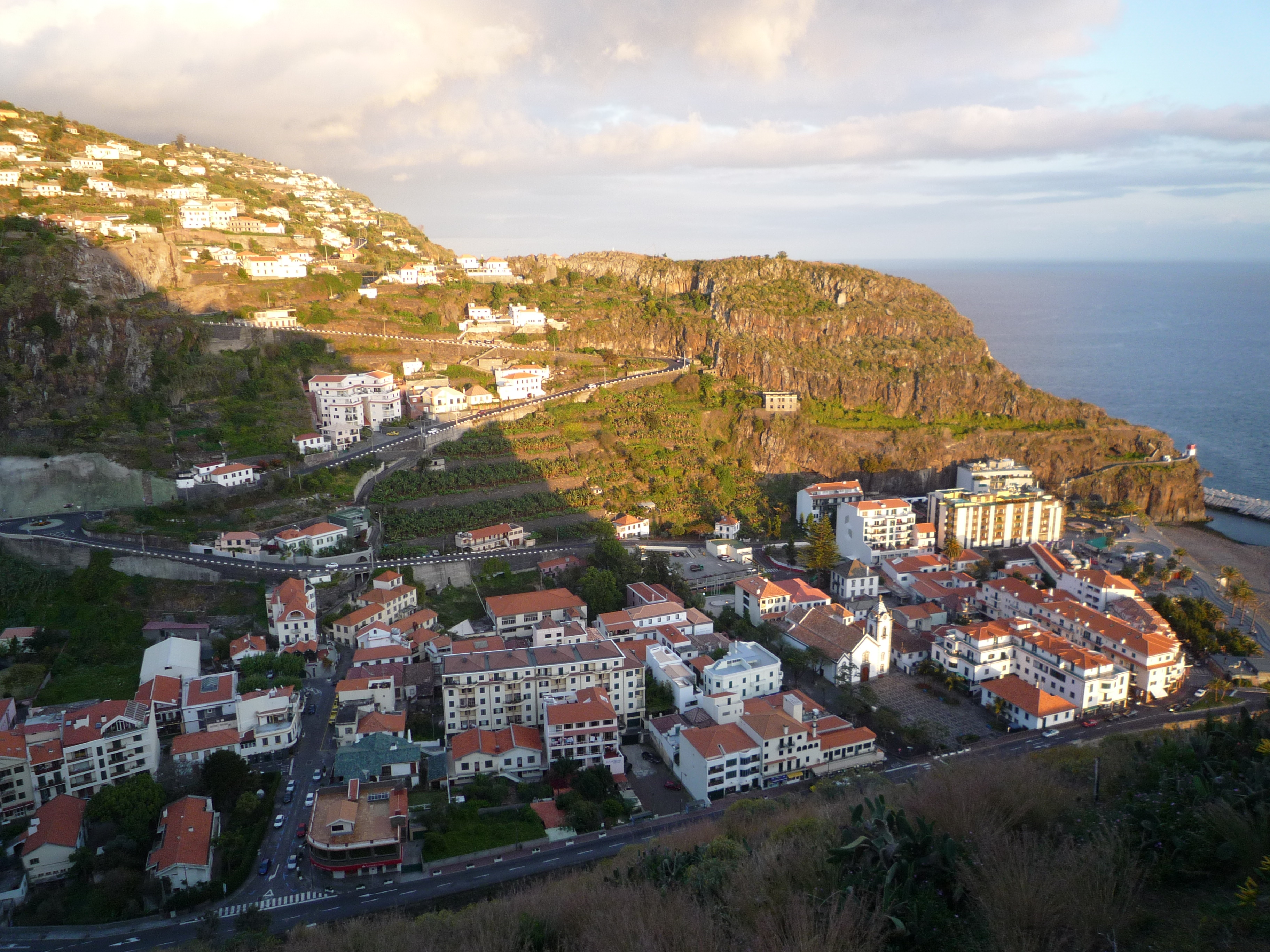 Ribeira Brava, Madeira viewed at sunset. The church of São Bento can be seen right of centre.